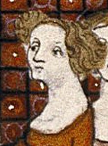 Clemance Hongrie